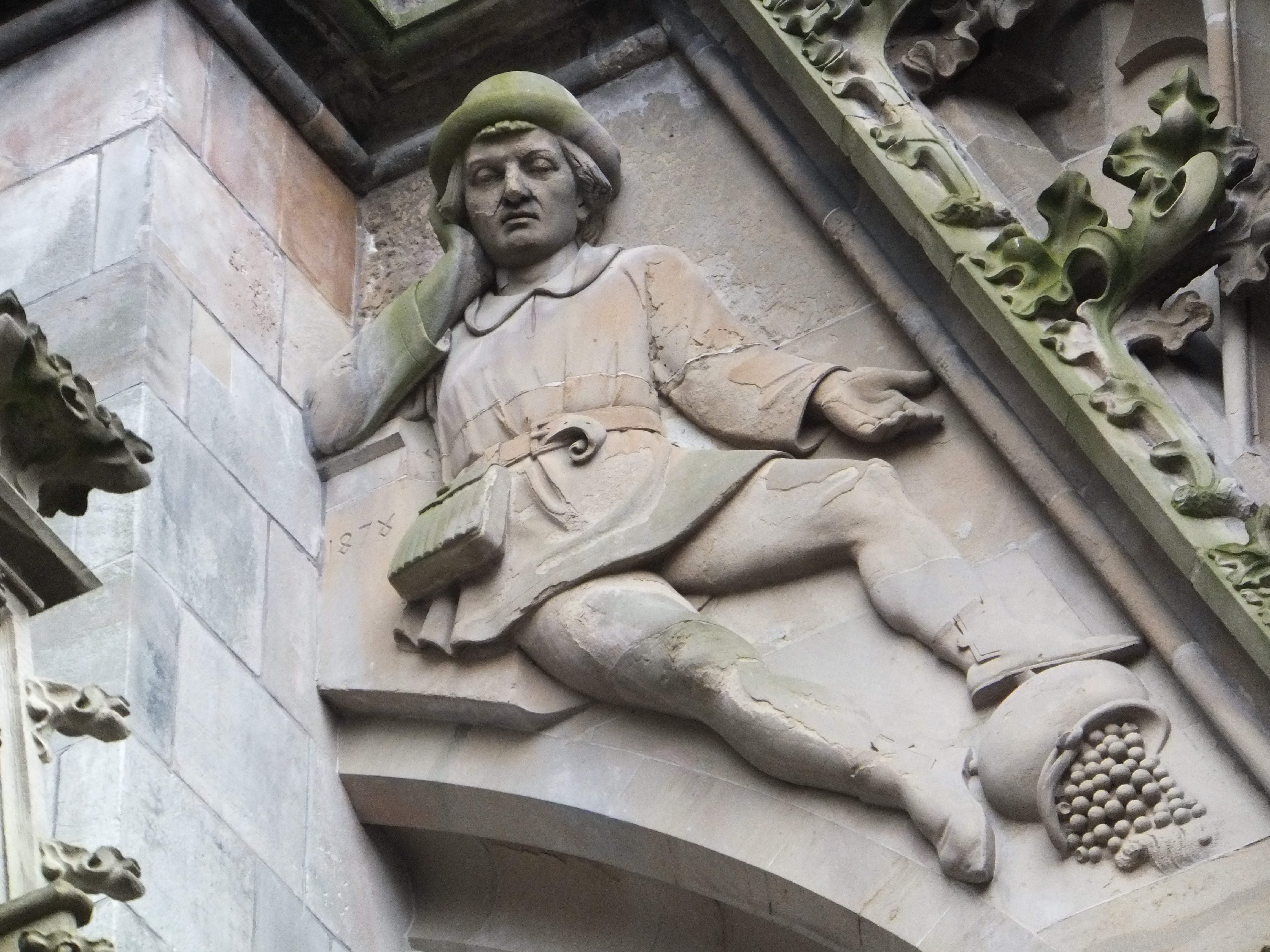 The statue of the Erwtenman of the Saint Jan church of Den Bosch in the Netherlands (Photo Ruben Koman, 2012).